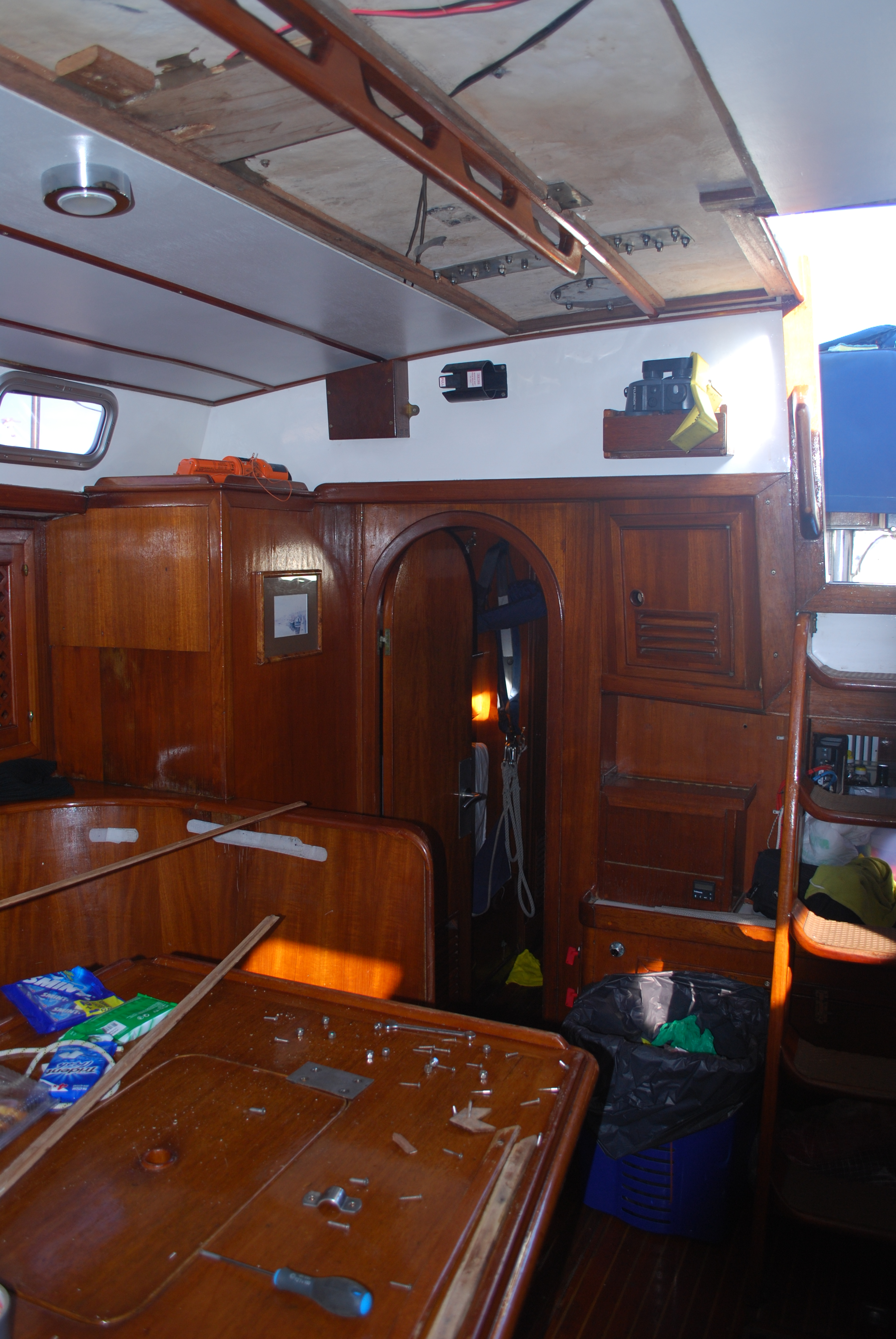 Interior of a 90-ties sailing yacht with dismounted ceiling to get access to the screws holding winches and halyard stoppers